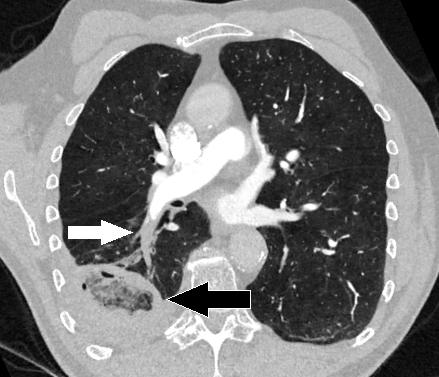 Thorax CT of a 74-year-old man with a long-standing pulmonary embolism (having lasted 3 months) of the artery of the right lower lobe, secondary to a leg fracture, and with long-standing hemoptysis. It shows the embolism, as well as a pulmonary infarction (white arrow) seen as a reverse halo sign (black arrow). Further information: Reverse halo sign